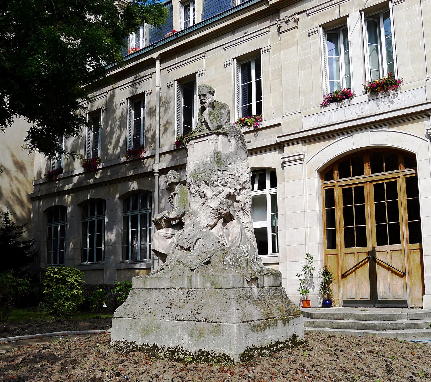 Georges-Mandel avenue - Paris